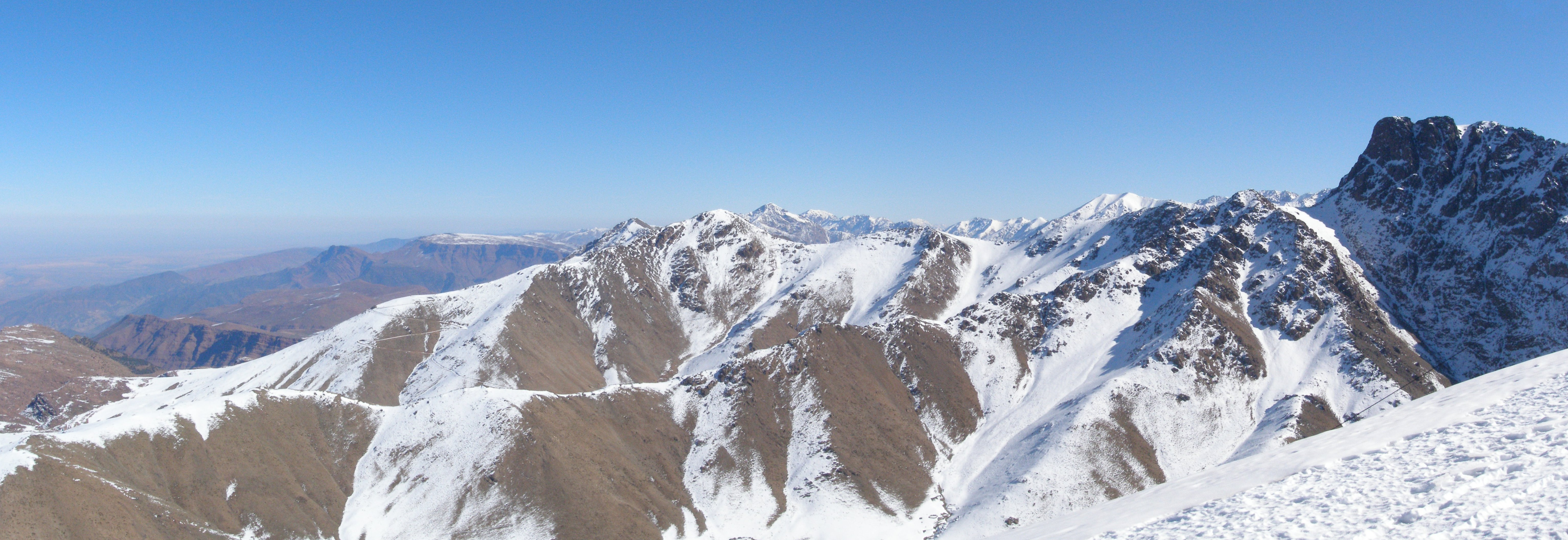 View from Jbel Oukaimeden, near Oukaimeden. Panorama of 3 pictures.